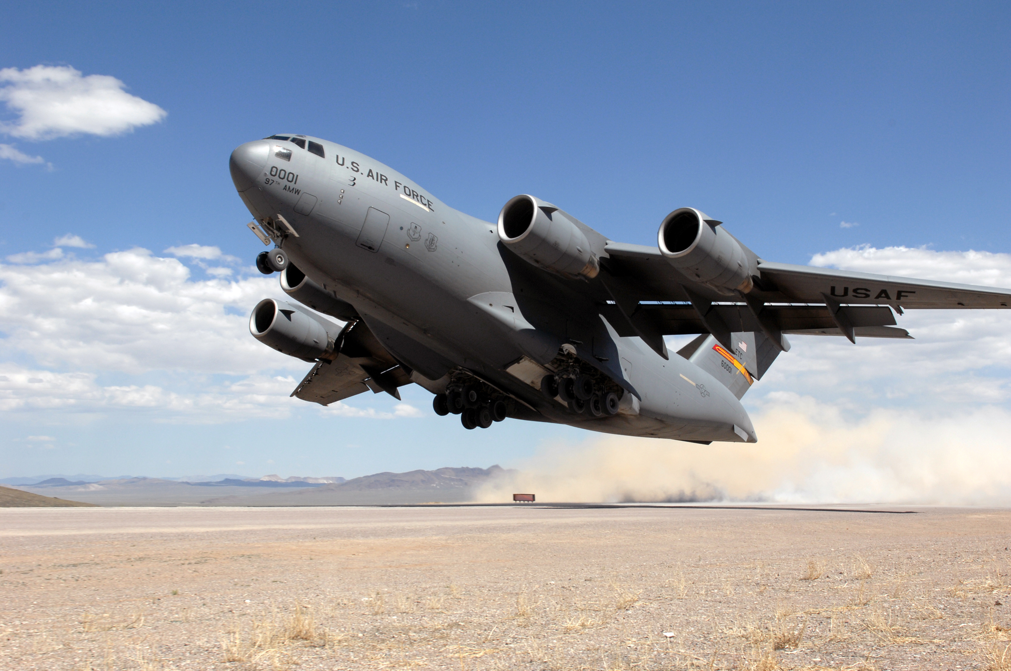 A C-17 Globemaster III assigned to 97th Air Mobility Wing, Altus Air Force Base, Okla., takes off from the Tonopah runway May 20 at Nellis Air Force Base, Nev., while participating in the Mobility Air Forces Exercise. Approximately 12 U.S. Air Force bases participate in the exercise twice a year, testing the crew ability of C-17 Globemaster IIIs and C-130s to join together in formation at a specific time and location to drop a brigade-size force anywhere in the world.